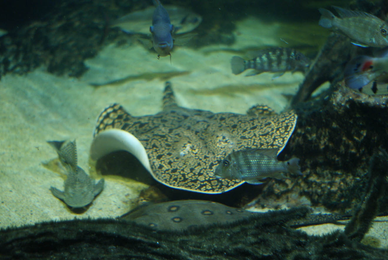 Largespot river stingray (Potamotrygon falkneri) at the Vancouver Aquarium